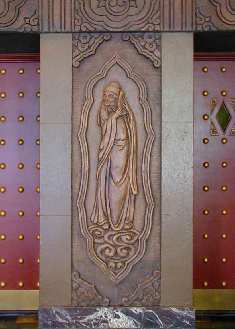 Detail of relief between entry doors at the 5th Avenue Theatre, Seattle, Washington.